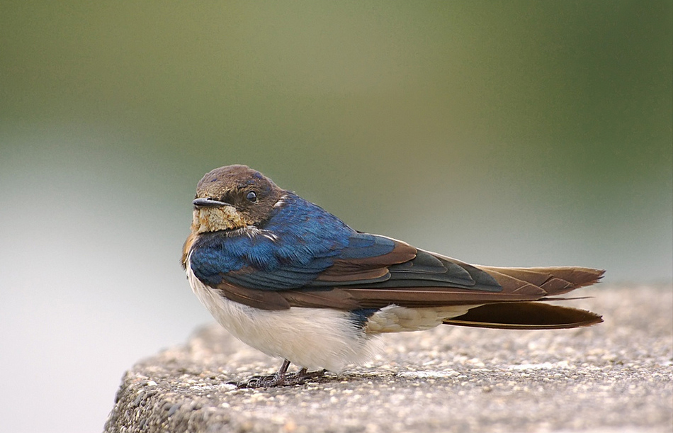 Barn Swallow Hirundo rustica, juvenile. Kavadi Pat, Pune, India Technical Details: Canon 1000D + Sigma 70-300 ISO: 320 : 1/400 sec: f/5.6 Focal Length: 300mm